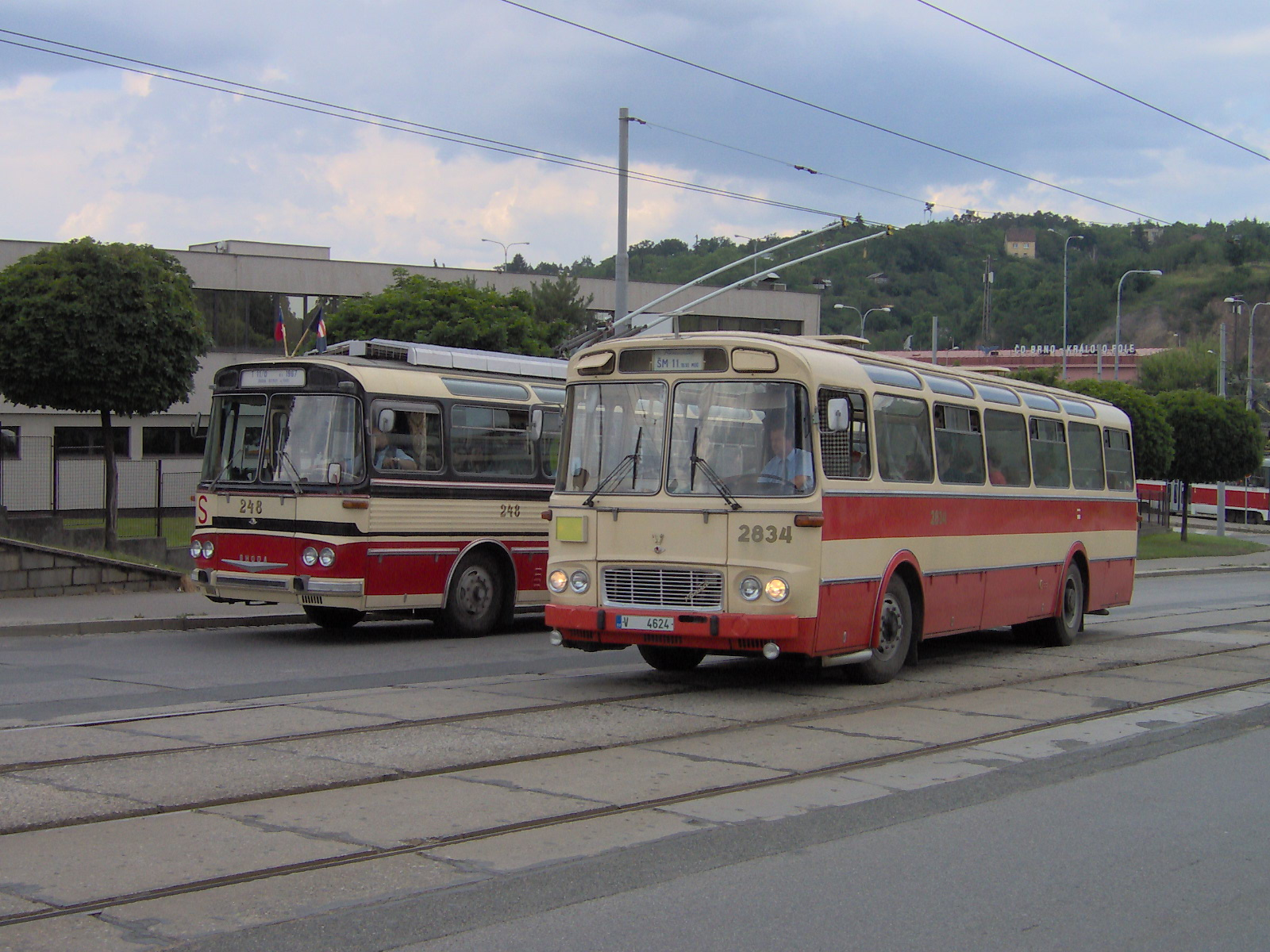 Škoda T 11 trolleybus and Karosa ŠM 11 bus (both historical vehicles) in Brno